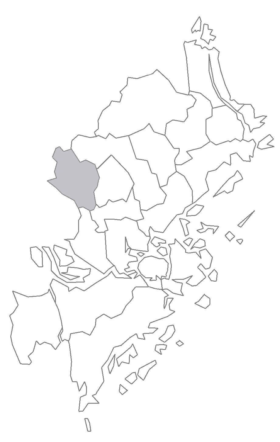 Map describing the location of Ärling Hundred in Stockholm County, Sweden.